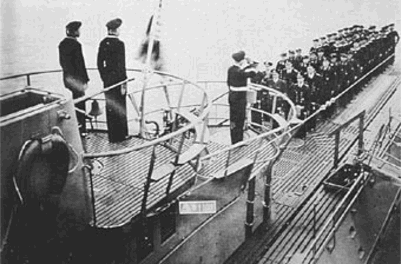 National Archives - The webmaster of the following site obtained the photo from the National Archives, and confirmed to me by email that it was in the public domain.